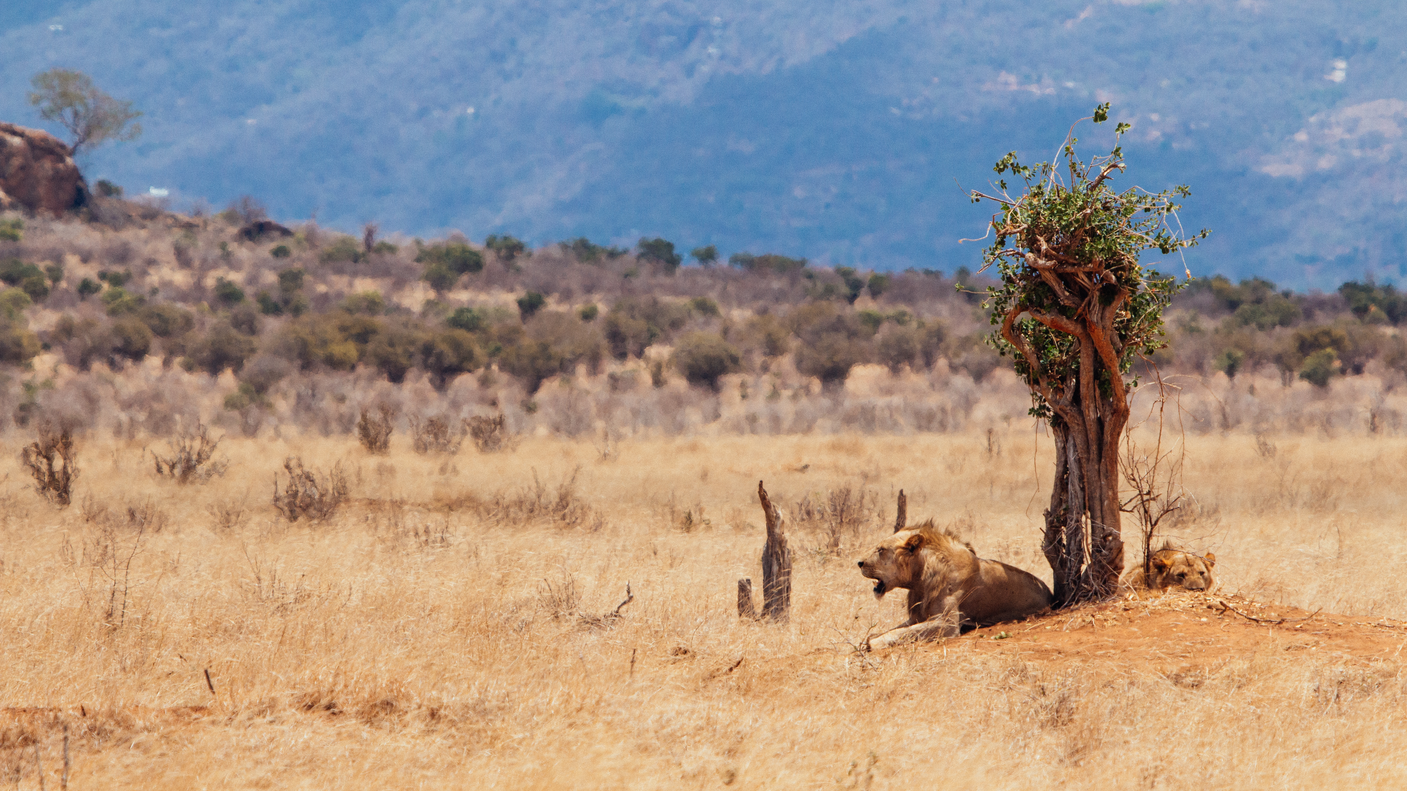 Two male lions at Tsavo